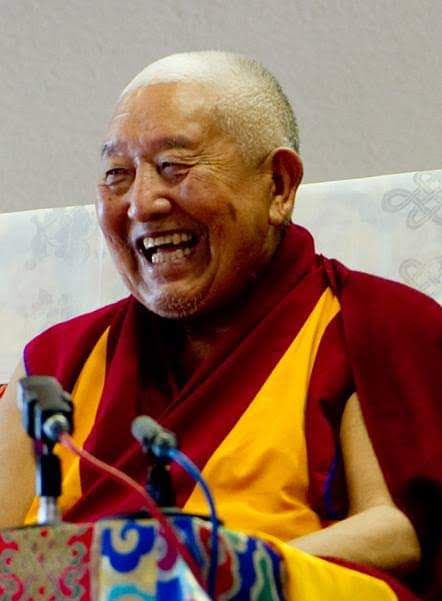 Bon master in conference